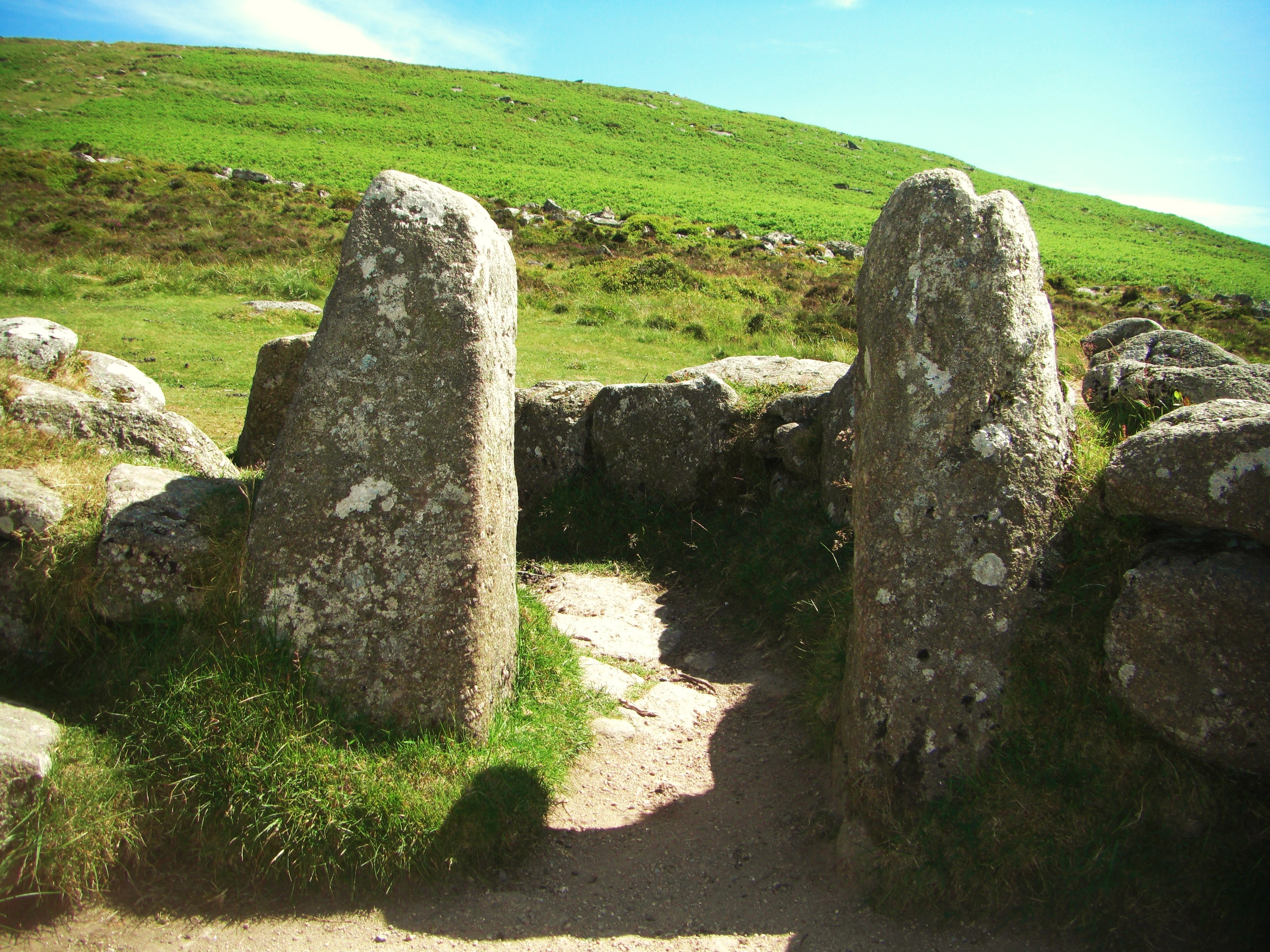 A photograph taken at Grimspound of the entrance to a hut.